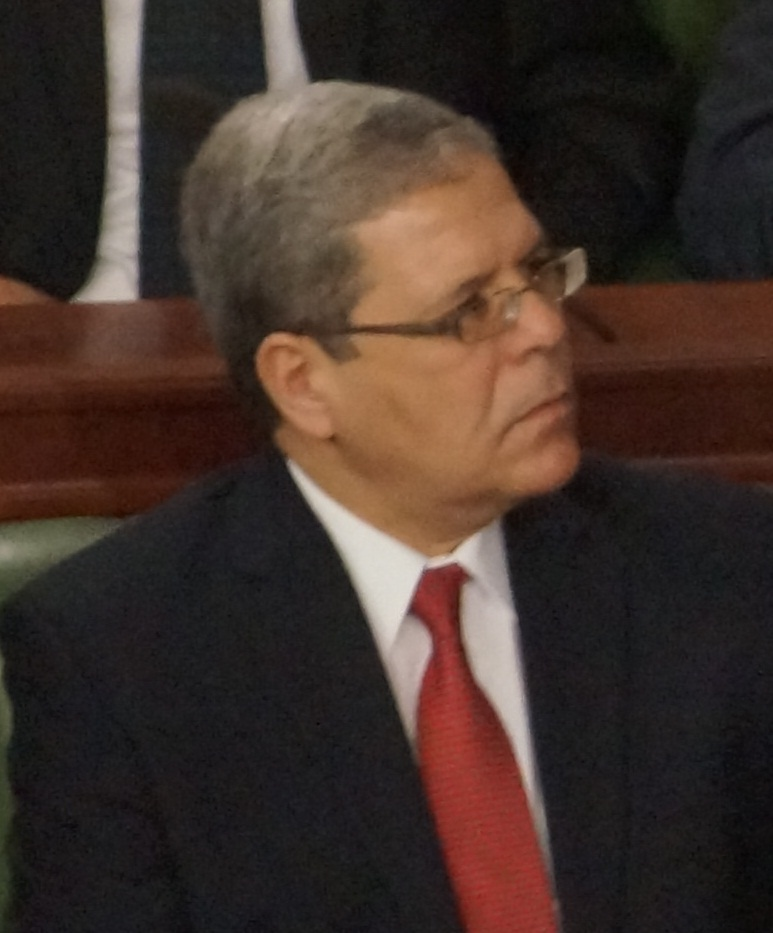 Othman Jerandi, Tunisian foreign minister, at the National Constituent Assembly